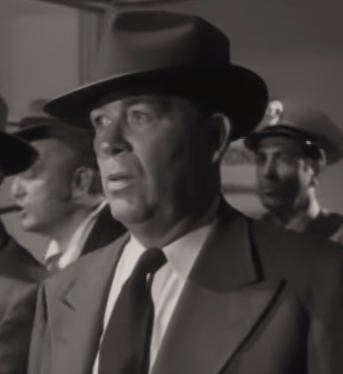 William Haade in Kansas City Confidential - cropped screenshot